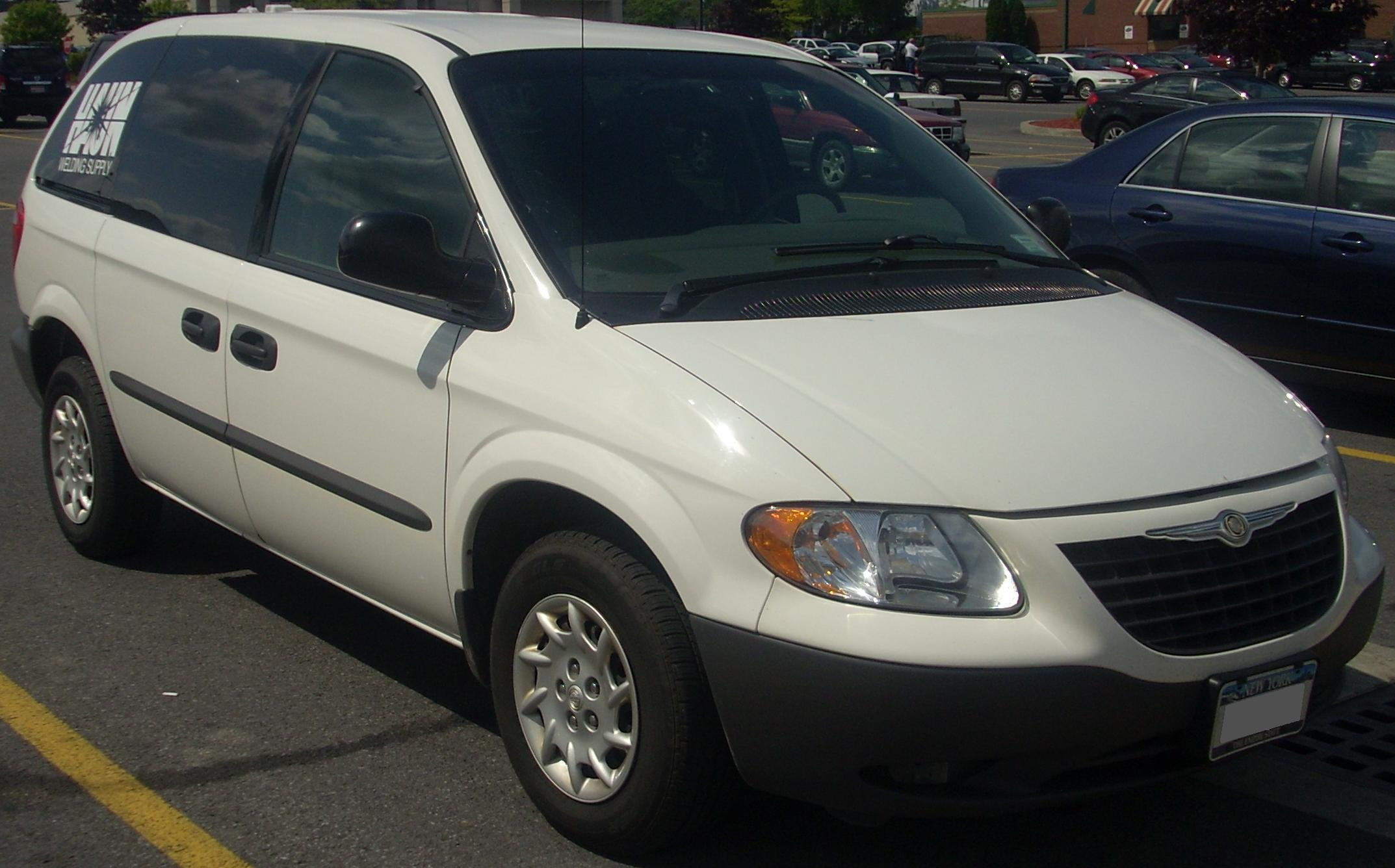 2002-2003 Chrysler Voyager photographed in Plattsburgh, New York, USA.